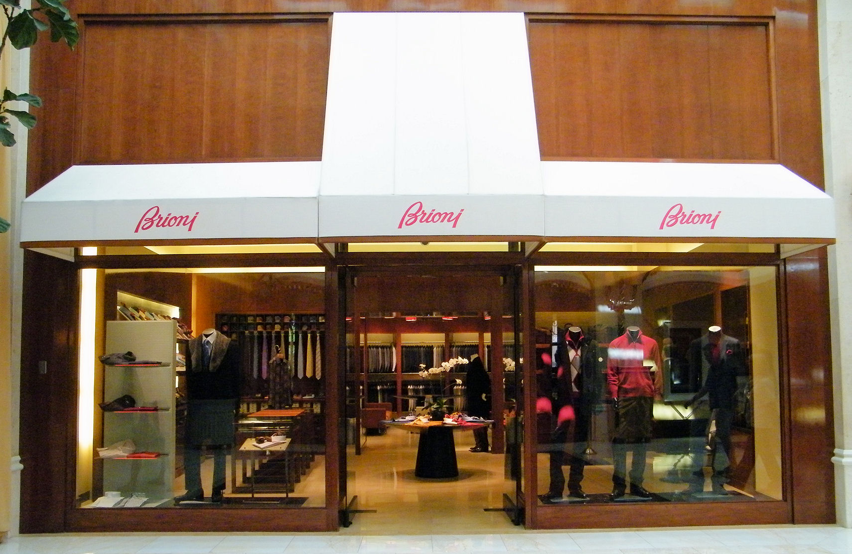 A Brioni boutique at Wynn Las Vegas on the Las Vegas Strip, Las Vegas, Nevada. Photographed by user Coolcaesar on October 4, 2009.